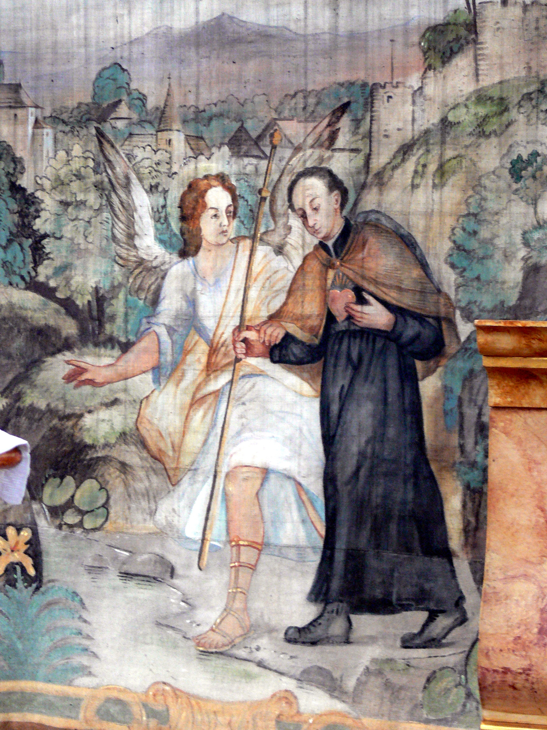 Traunkirchen - parish church Coronation of Mary: Gobelin ( 18th century ) showing Saint Stanislas on his pilgrimage to Rome ( 1567 ) accompanied by an guardian angel.